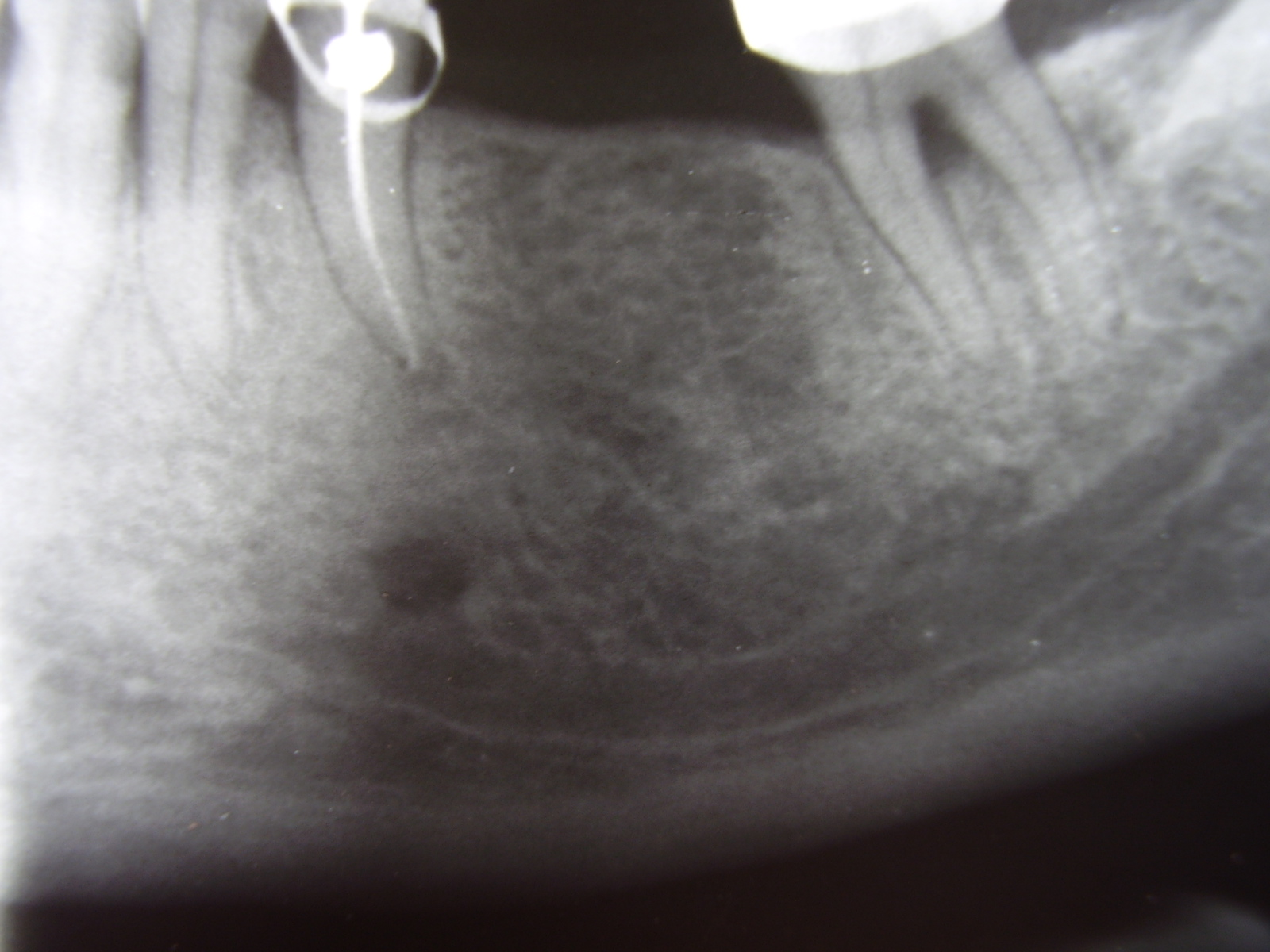 Dental X-ray: Canalis mandibulae and Foramen mentale